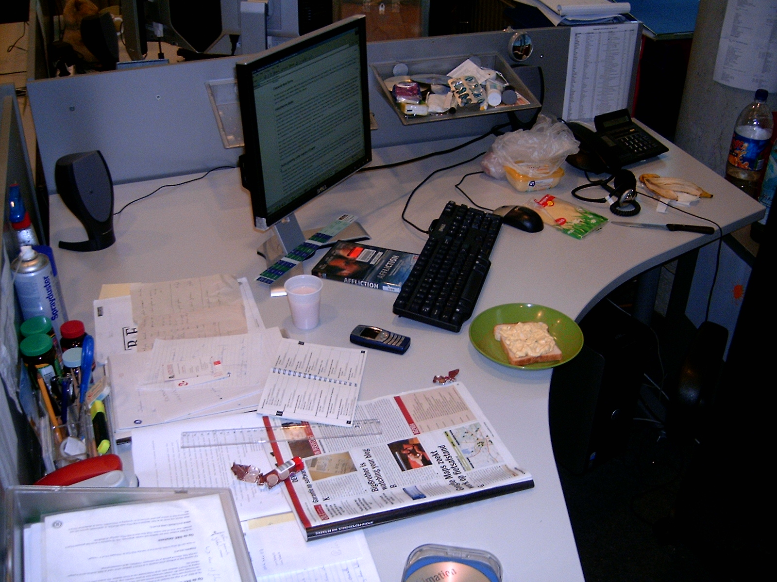 Untidy Desk